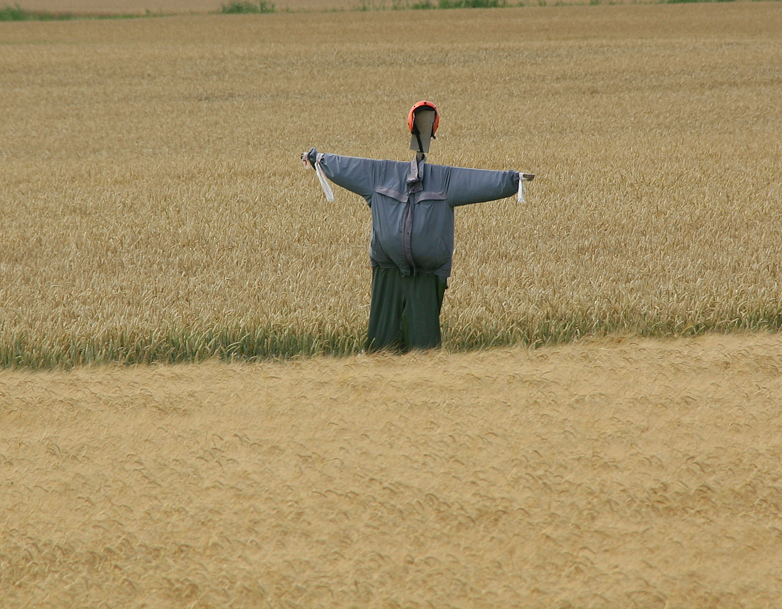 Look a scarecrow in Holland